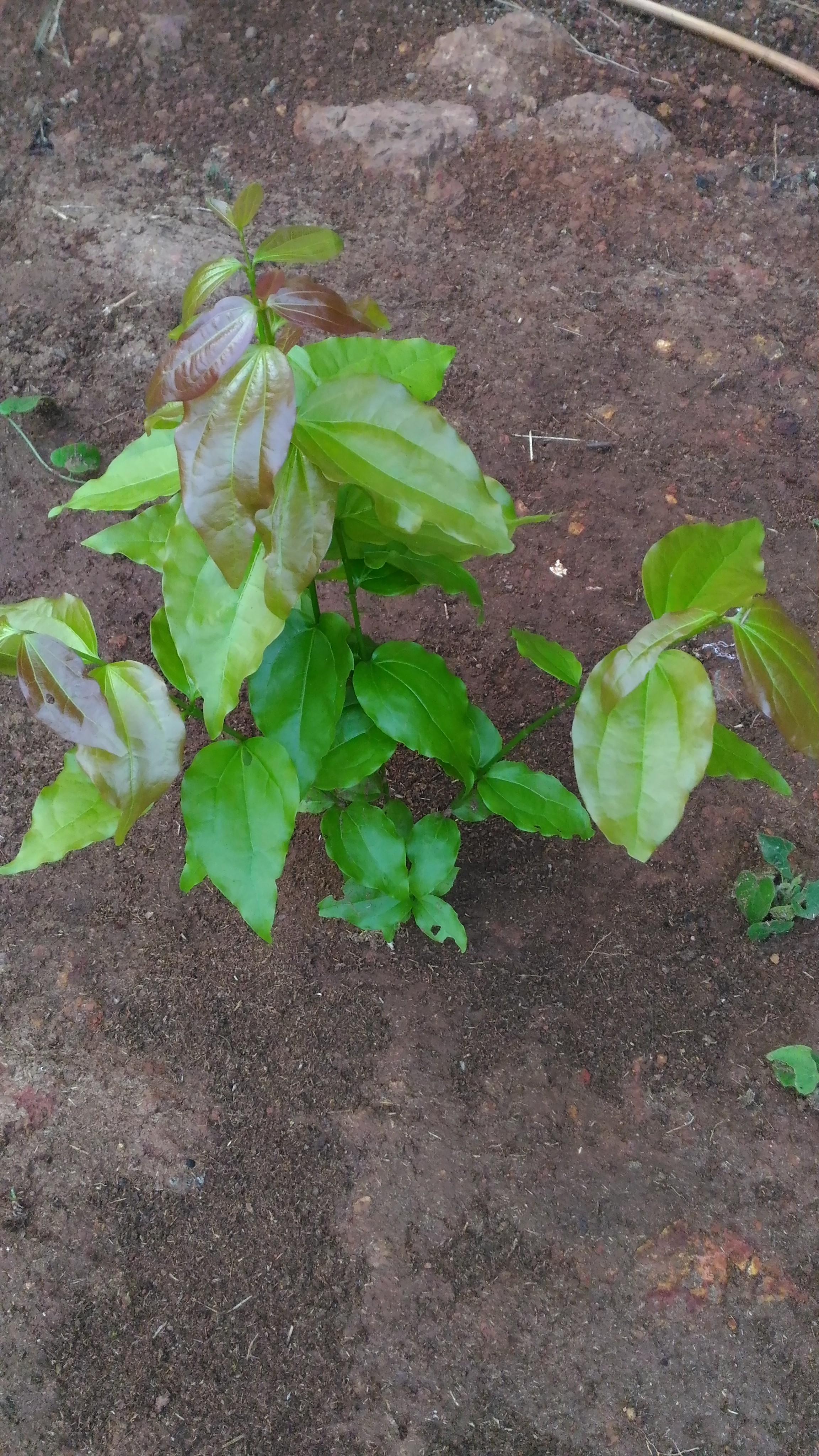 Poison Nut Tree_seedling